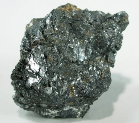 Teallite Locality: Carguaicollo Mine (Carguaycollo Mine; Carhuaycollo Mine), Antonio Quijarro Province, Potosí Department, Bolivia (Locality at ) Size: 3.2 x 2.5 x 2.3 cm. Teallite is a rare lead, tin sulfosalt and this rich and showy specimen is from an uncommon mine - the Carguaicollo Mine of Bolivia. Splendent, lamellar lathes of teallite cover all sides of this striking, rich piece. Very rare in this richness and quality. Ex. Wes Parker Collection.